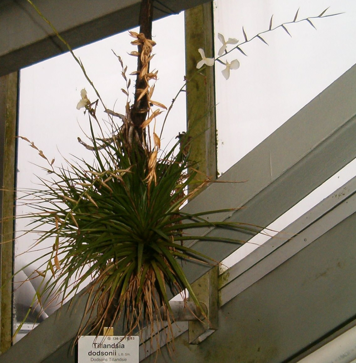 Location: Botanical Gardens Berlin Dahlem